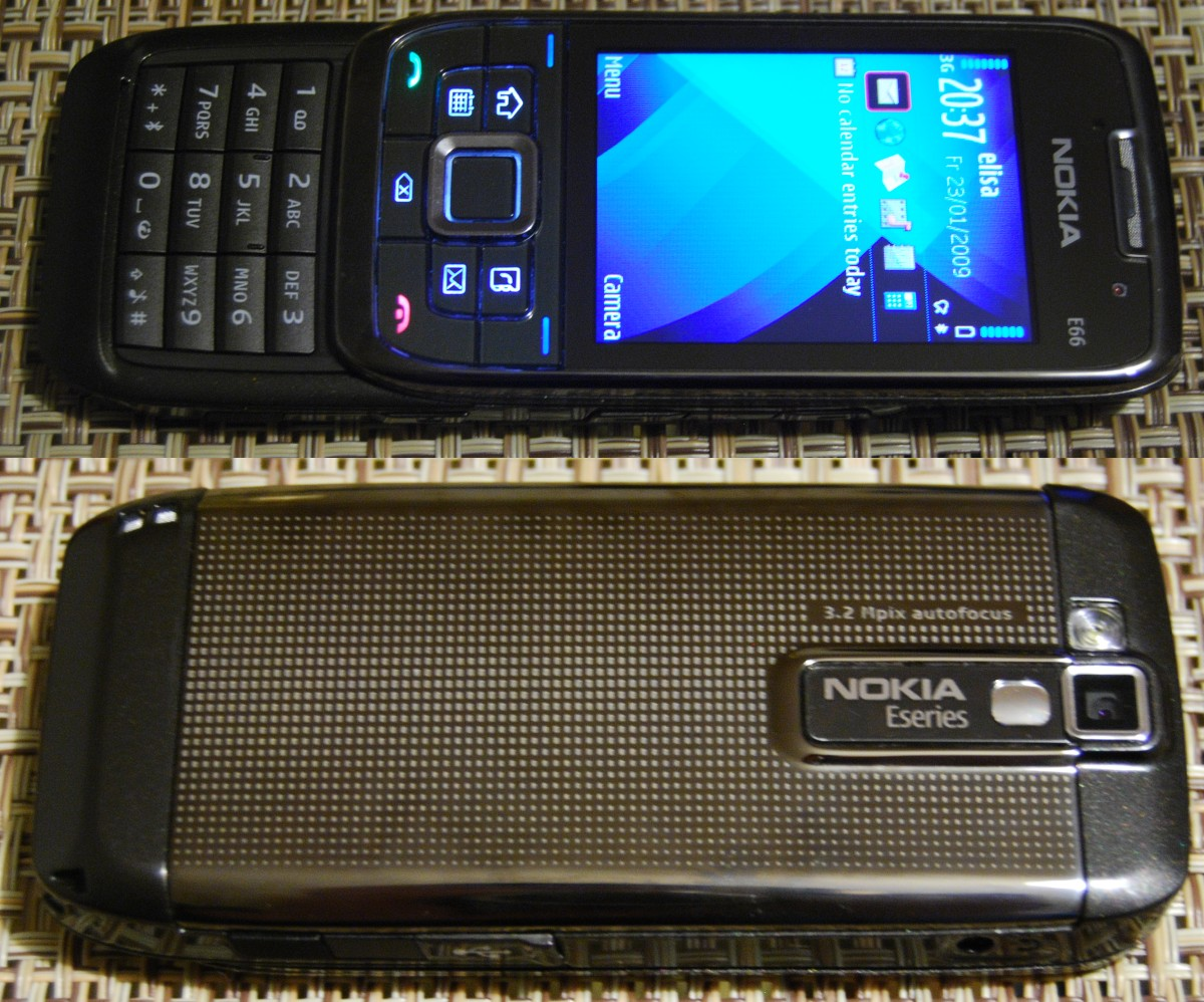 Nokia E66